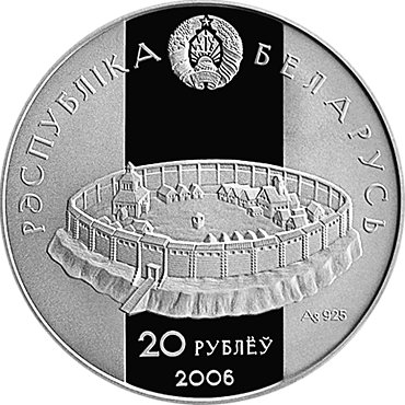 "Rogvolod of Polotsk and Rogneda" Silver commemorative coins, denomination: 20 rubles Беларуская (тарашкевіца): Беларуская срэбраная манэта "Рагвалод Полацкі і Рагнедаі" авэрс